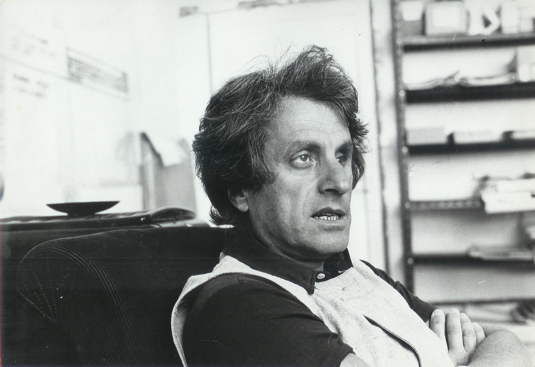 Iannis Xenakis